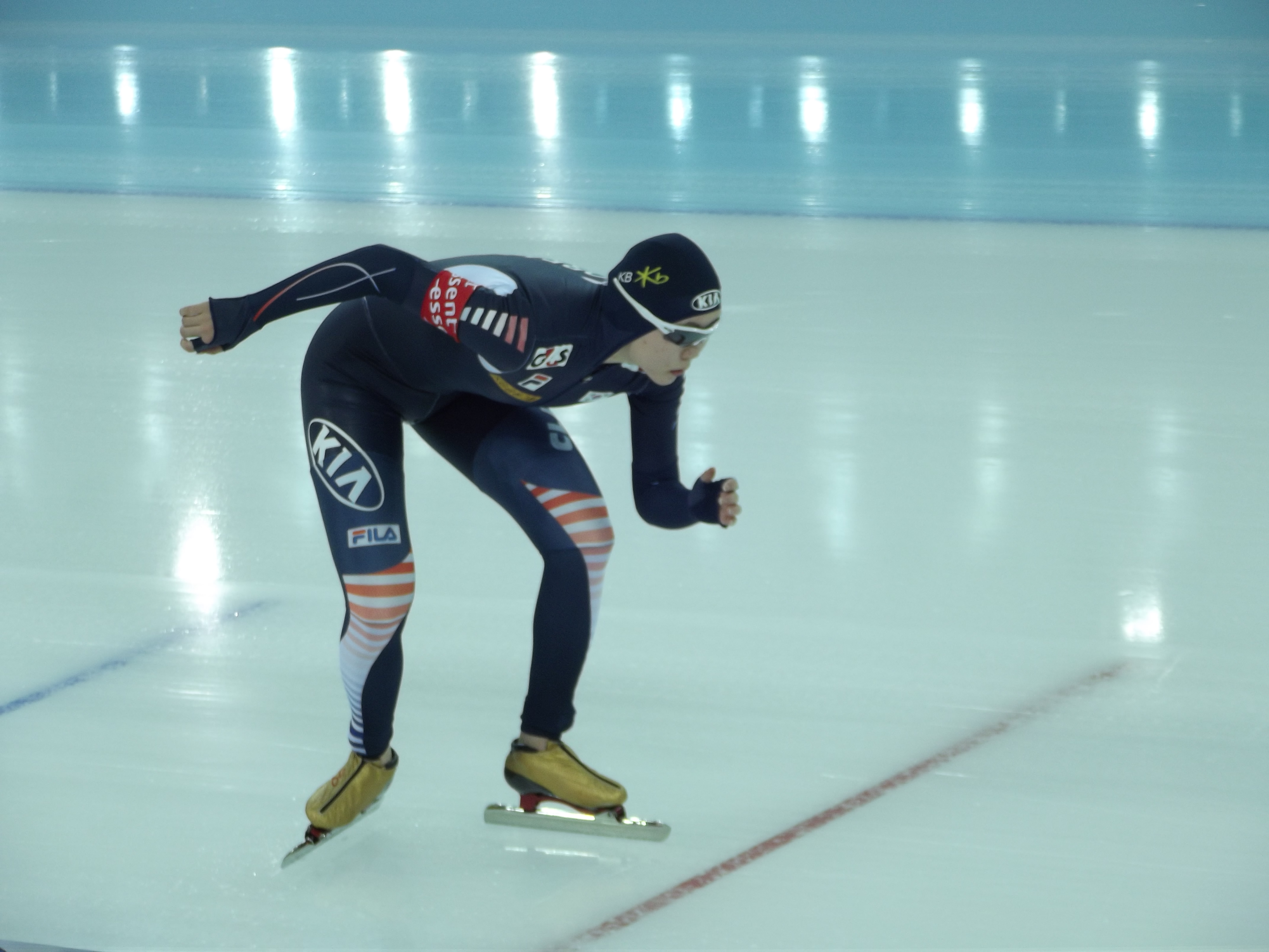 2013 World Single Distance Speed Skating Championships